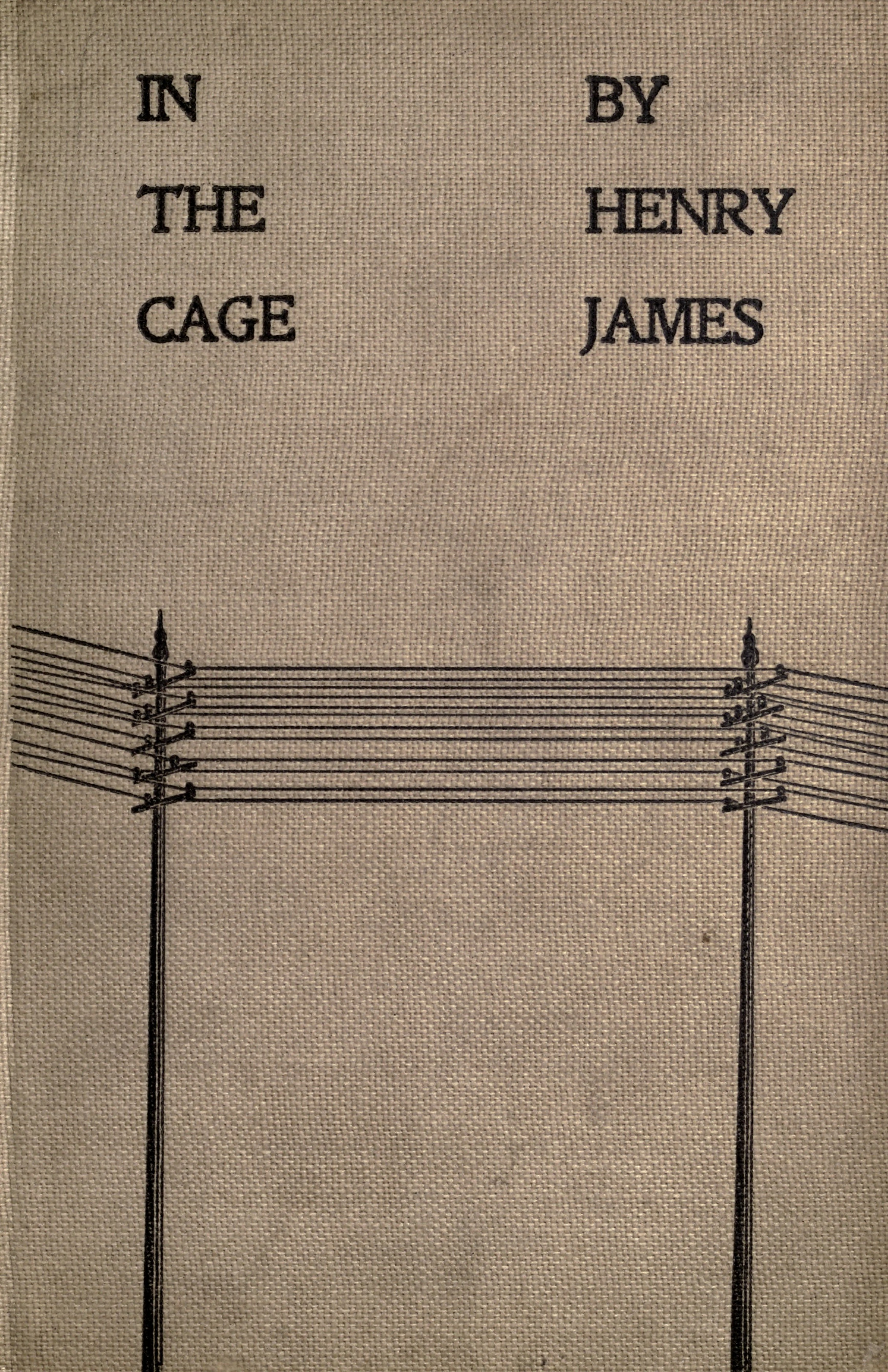 This is original binding cover page of the first English book edition of In the Cage (London: Duckworth, 1898) by Henry James.